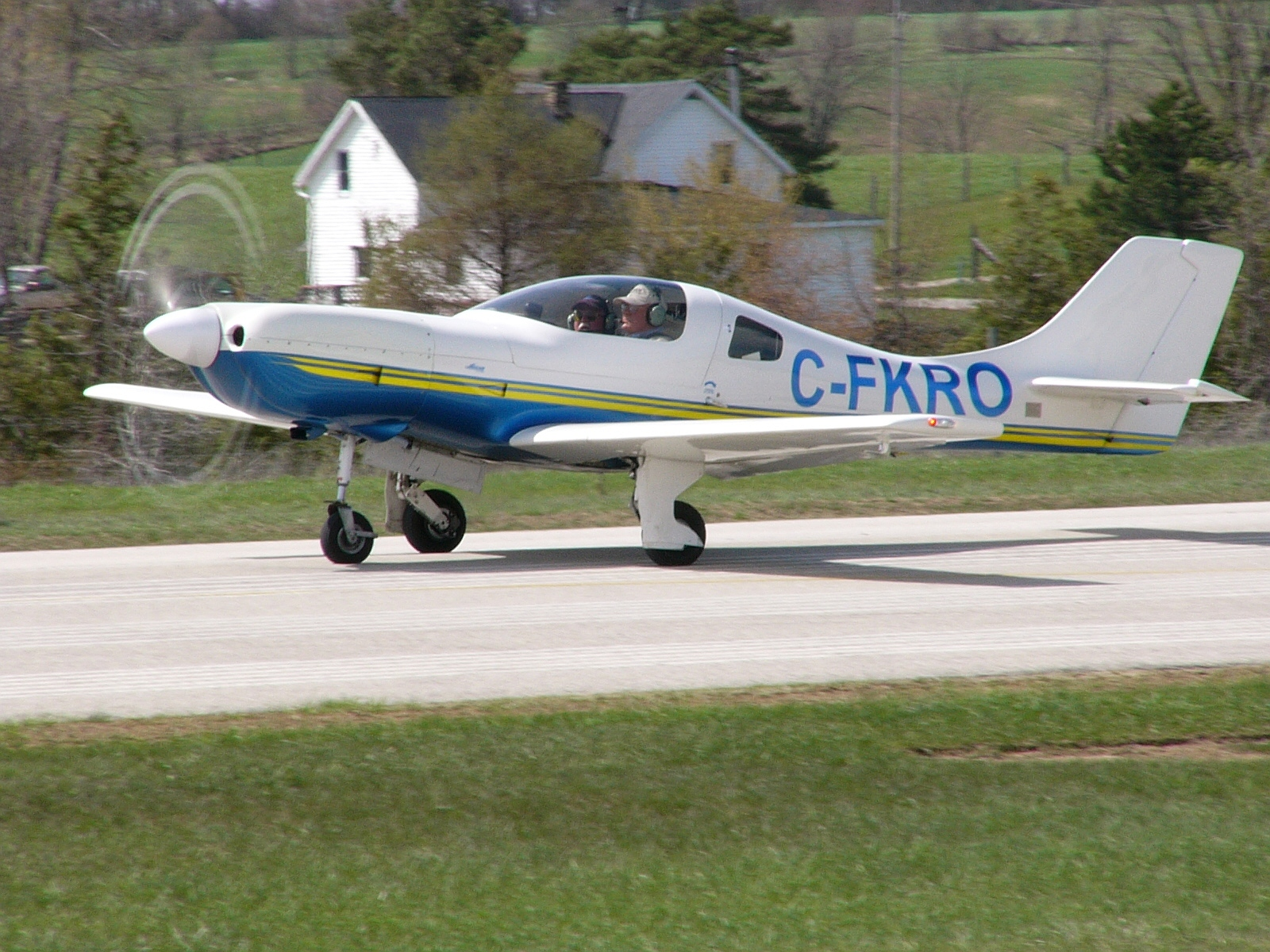 Lancair 320/360 at Hanover, Ontario, Canada, COPA Rust Remover